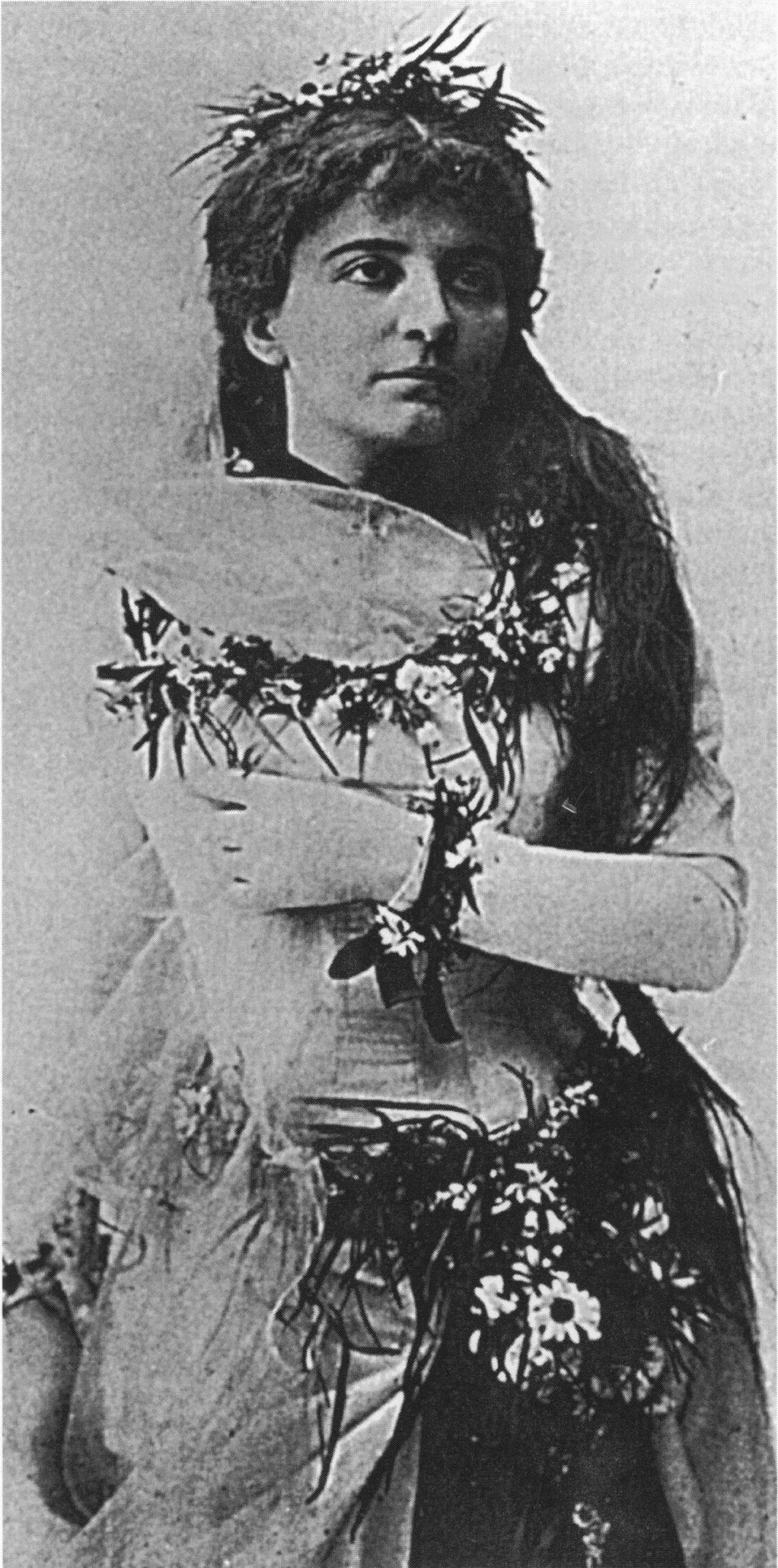 Romilda Pantaleoni as Tigrana in Puccini's Edgar - Milan 1889